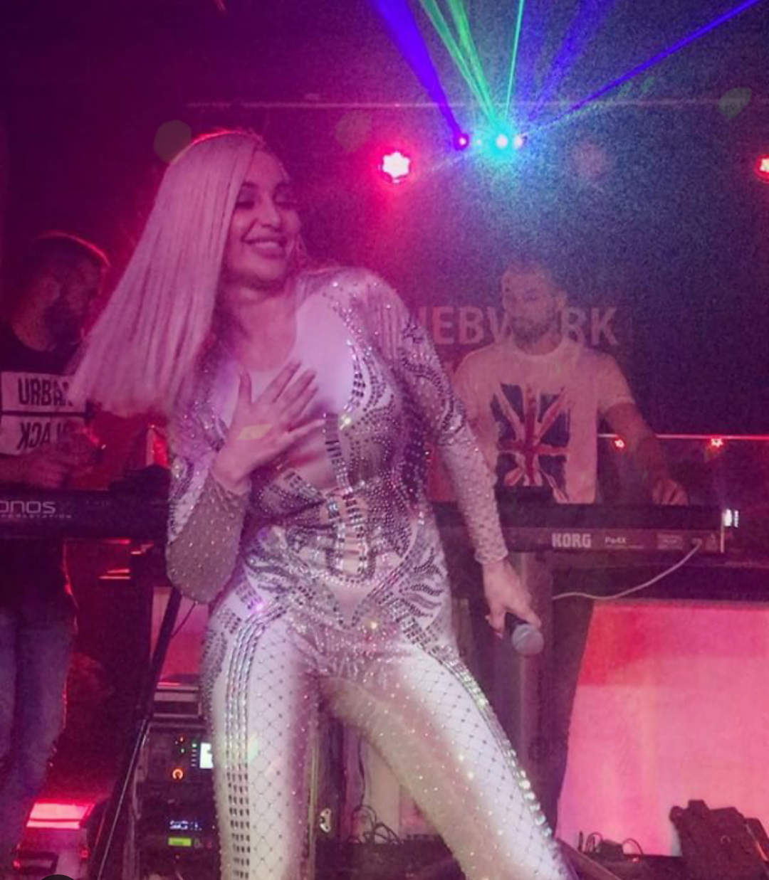 Singer Maya Berović in concert, 2017